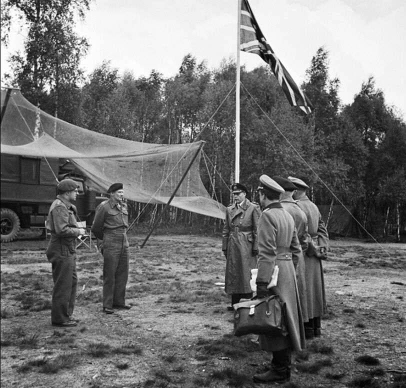 Field Marshal Montgomery receives German General-Admiral Von Friedeburg and other members of the surrender delegation at 21st Army Group Headquarters near Lüneburg, 3 May 1945.